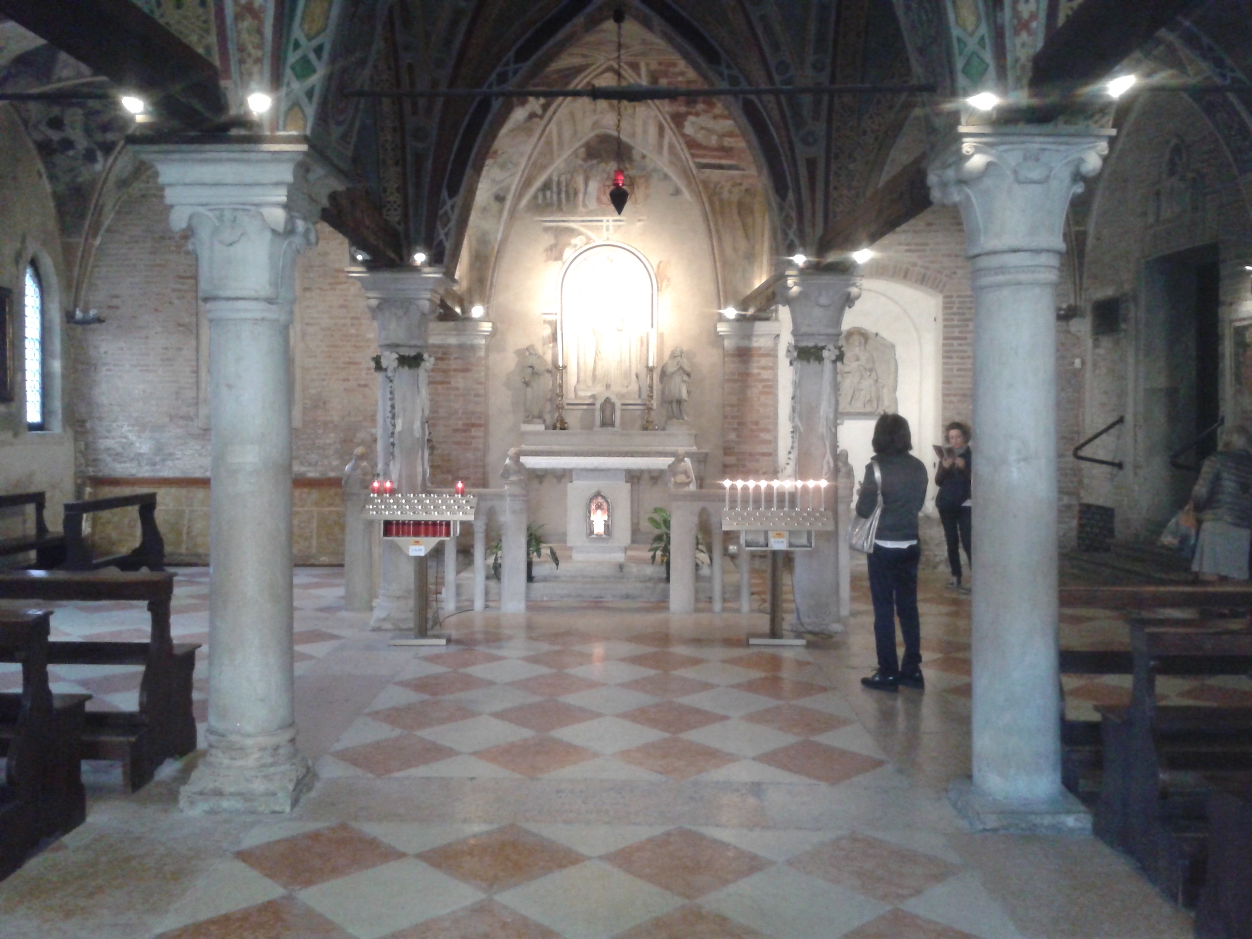 Altare della chiesa di s. Lucia in Treviso